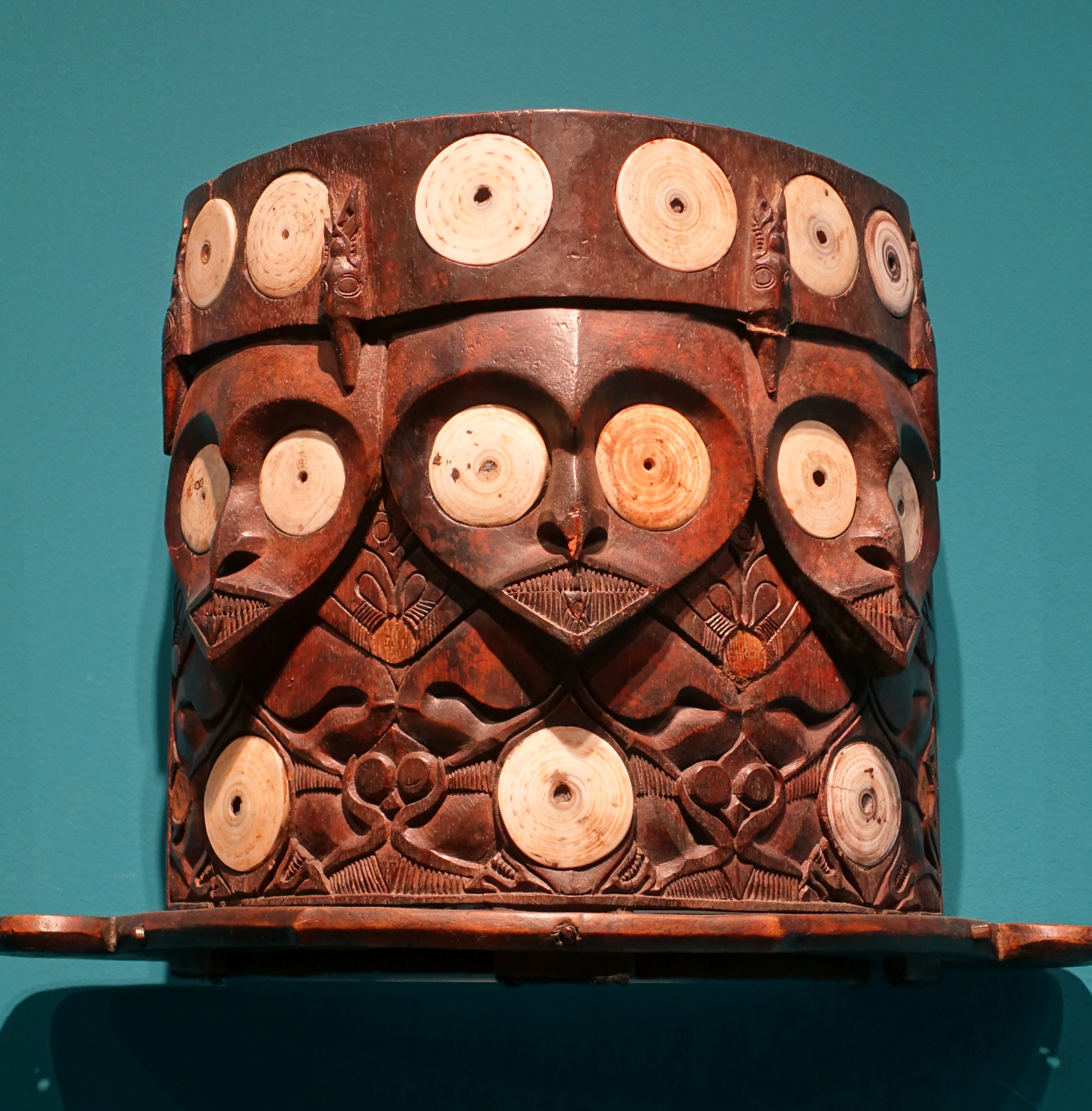 Exhibit in the Fowler Museum - University of California, Los Angeles - Los Angeles, California, USA.